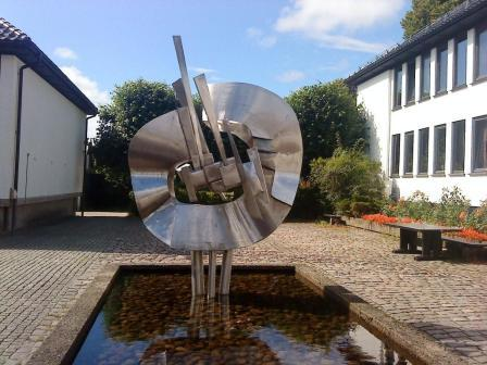 Work of art by sculptor Jørleif Uthaug (1911-90): Ekspansjon (Expansion) (1977) in Mandal, Norway